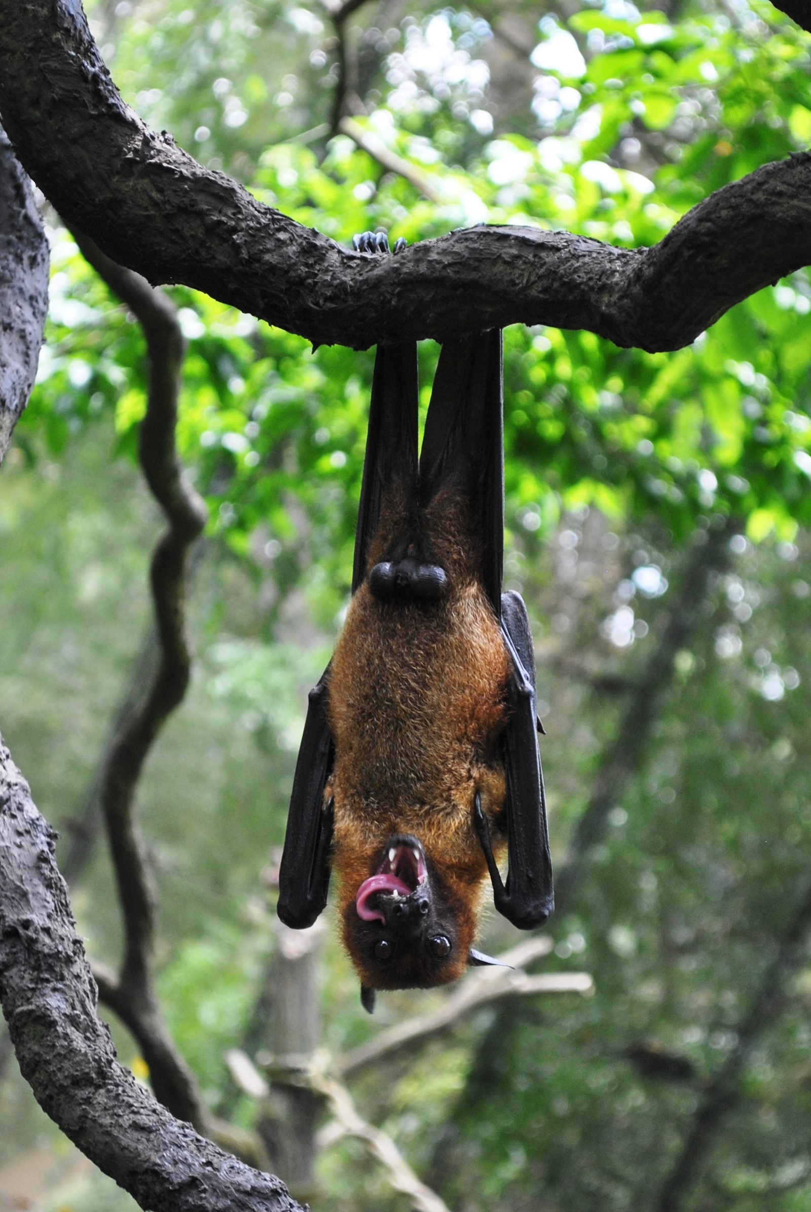 Singapore Zoo